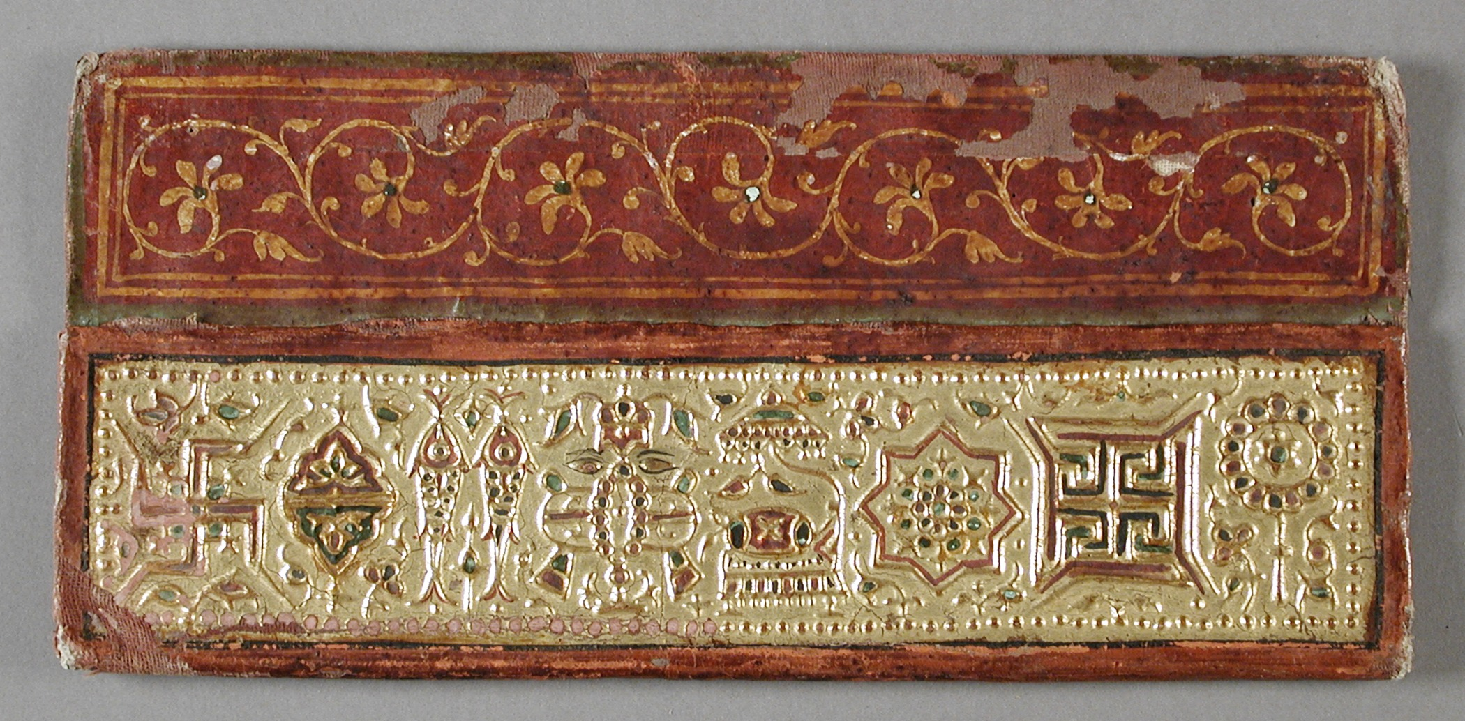 Western India, 16th century Manuscripts Lacquered and gilded cloth over cardboard From the Nasli and Alice Heeramaneck Collection, Museum Associates Purchase (M.72.53.22) South and Southeast Asian Art